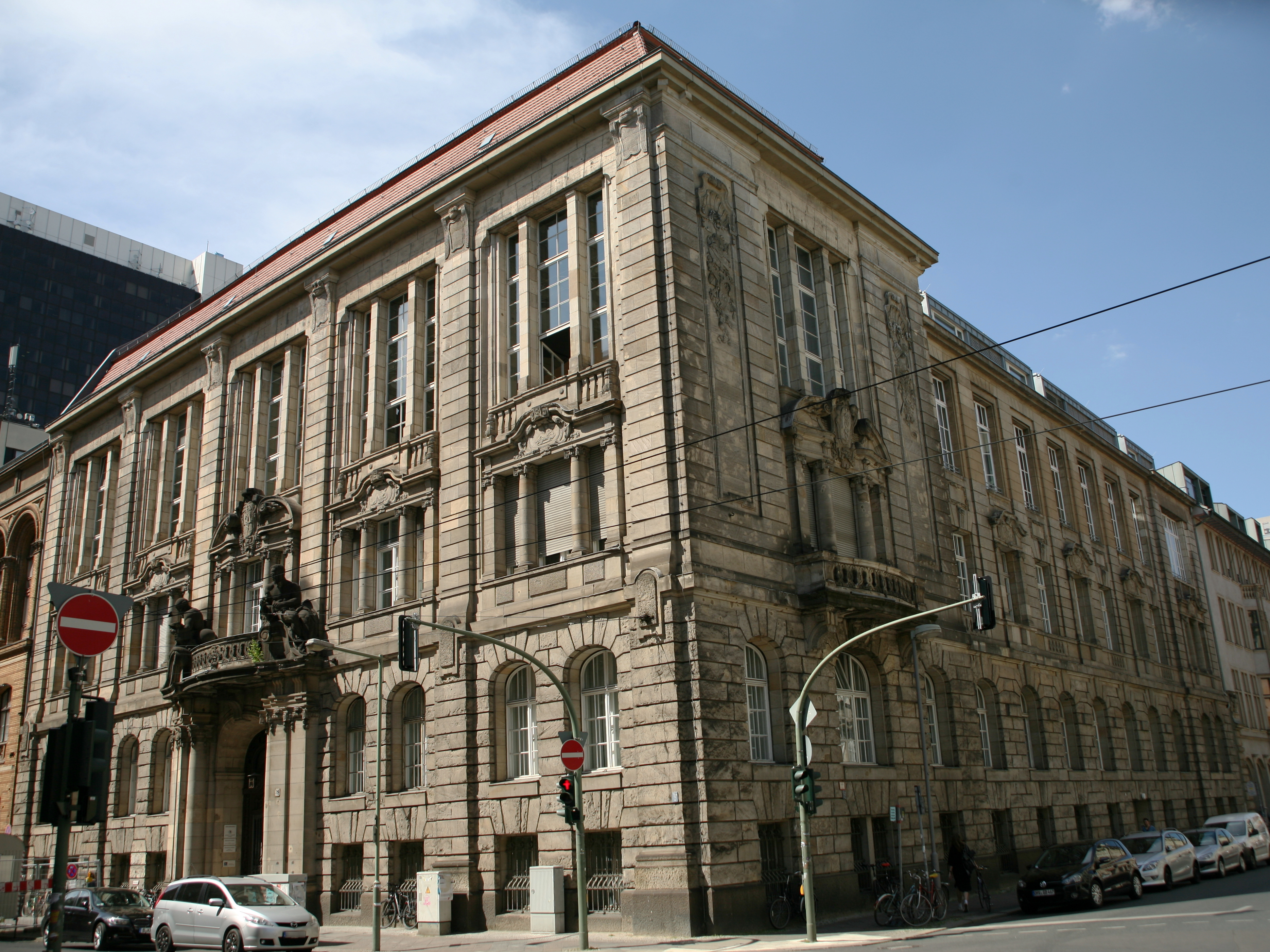 Dorotheenstraße 26, Berlin, Germany